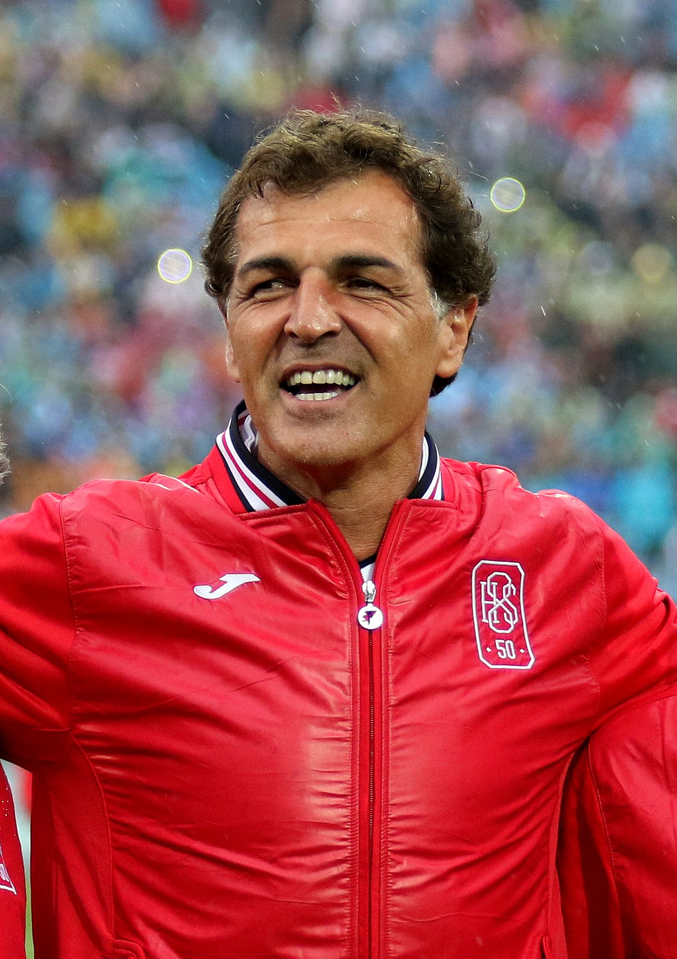 Miguel Ángel Nadal Homar (Spanish pronunciation: [miˈɣel ˈaŋxel naˈðal oˈmaɾ]; born 28 July 1966) is a Spanish retired footballer. Nicknamed The Beast